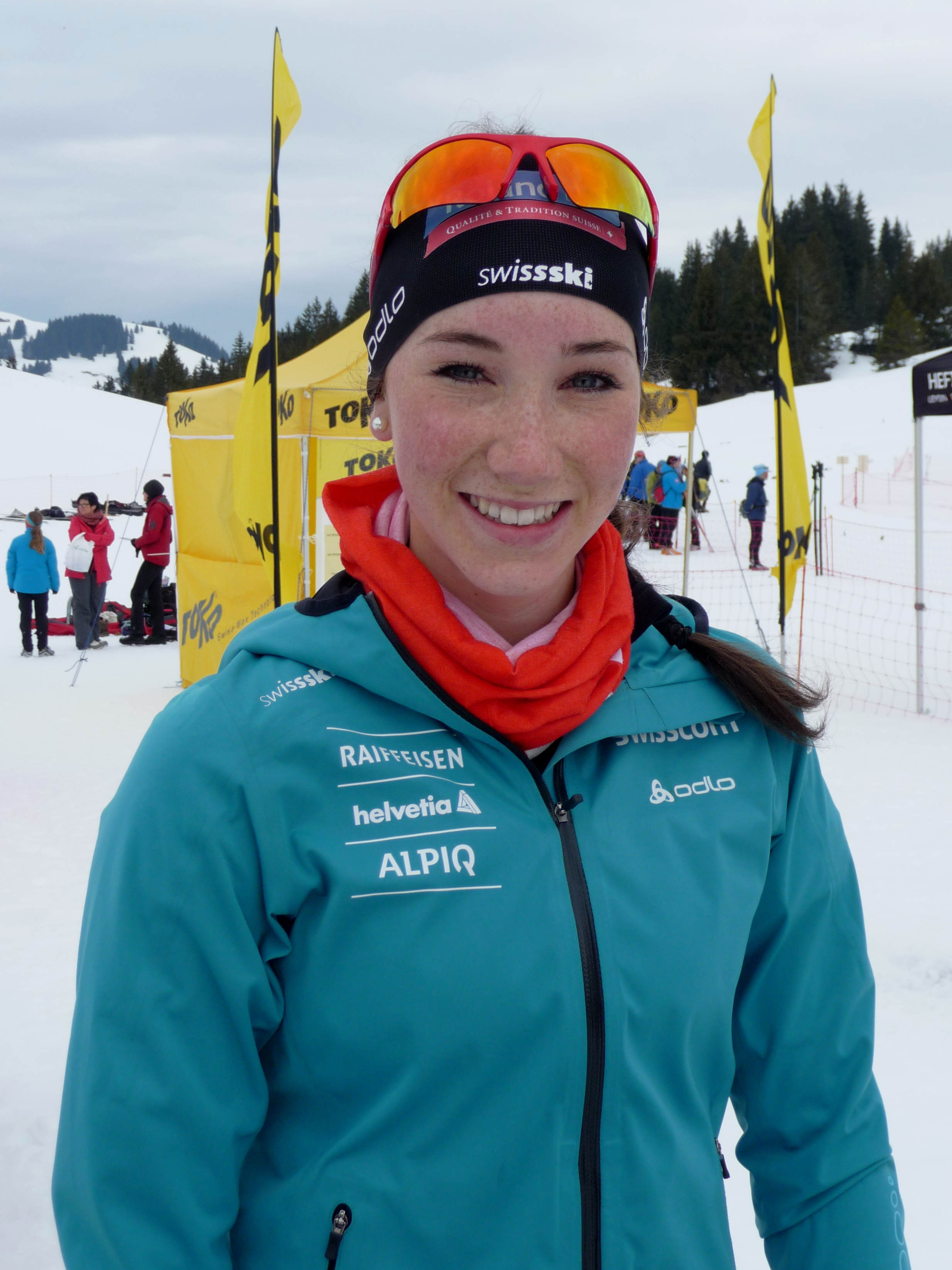 Swiss biathlete Aita Gasparin at National Championships in Biathlon 2013 in La Lécherette, Switzerland